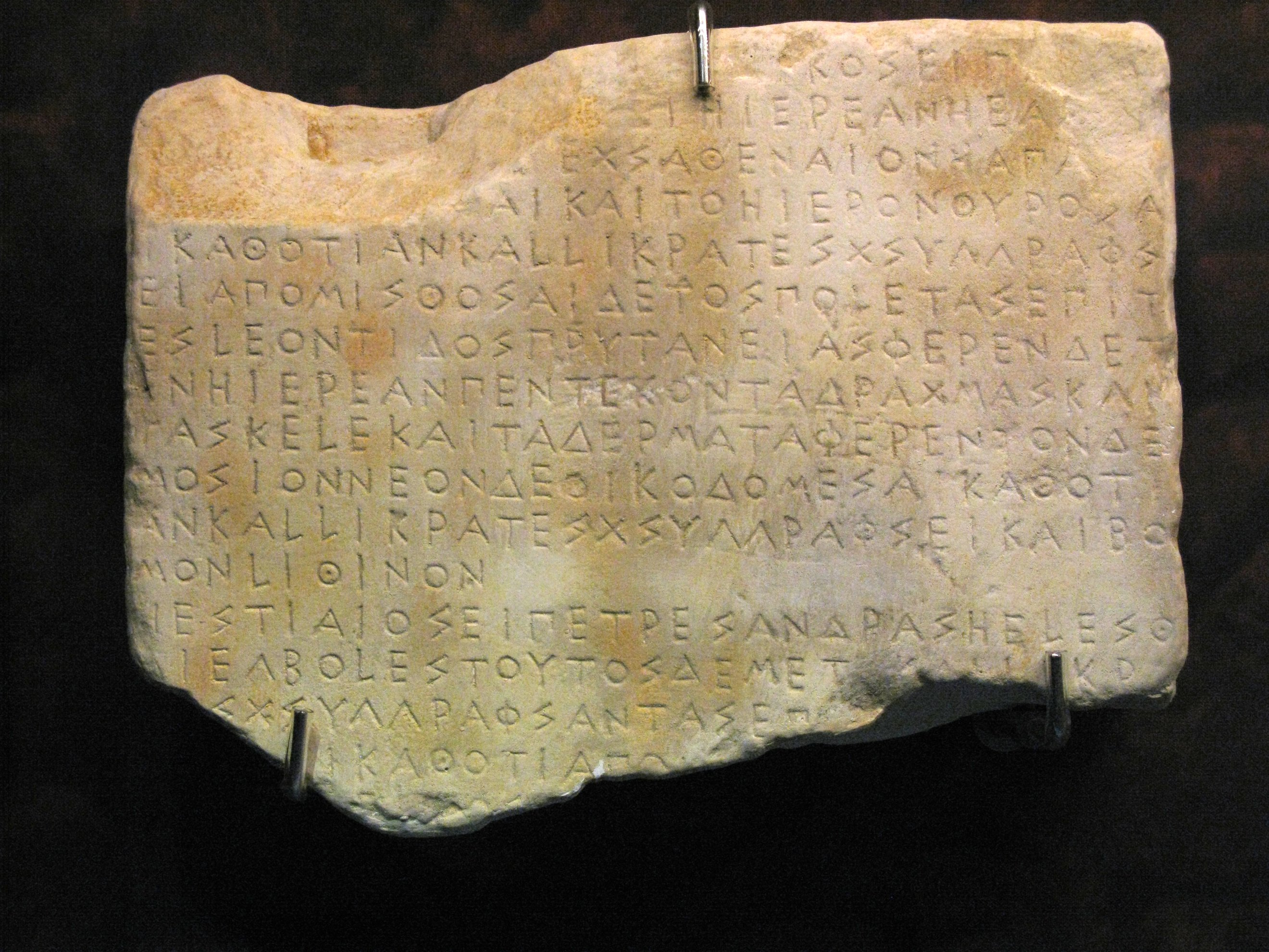 Plaster cast of a double-sided stele. On face A, a decree (ca. 448 BC) ordering that a temple to Athena Nike be built on the Acropolis in accordance with the designs of the architect Kallikrates. Cycladic Art Museum, Athens, Greece.